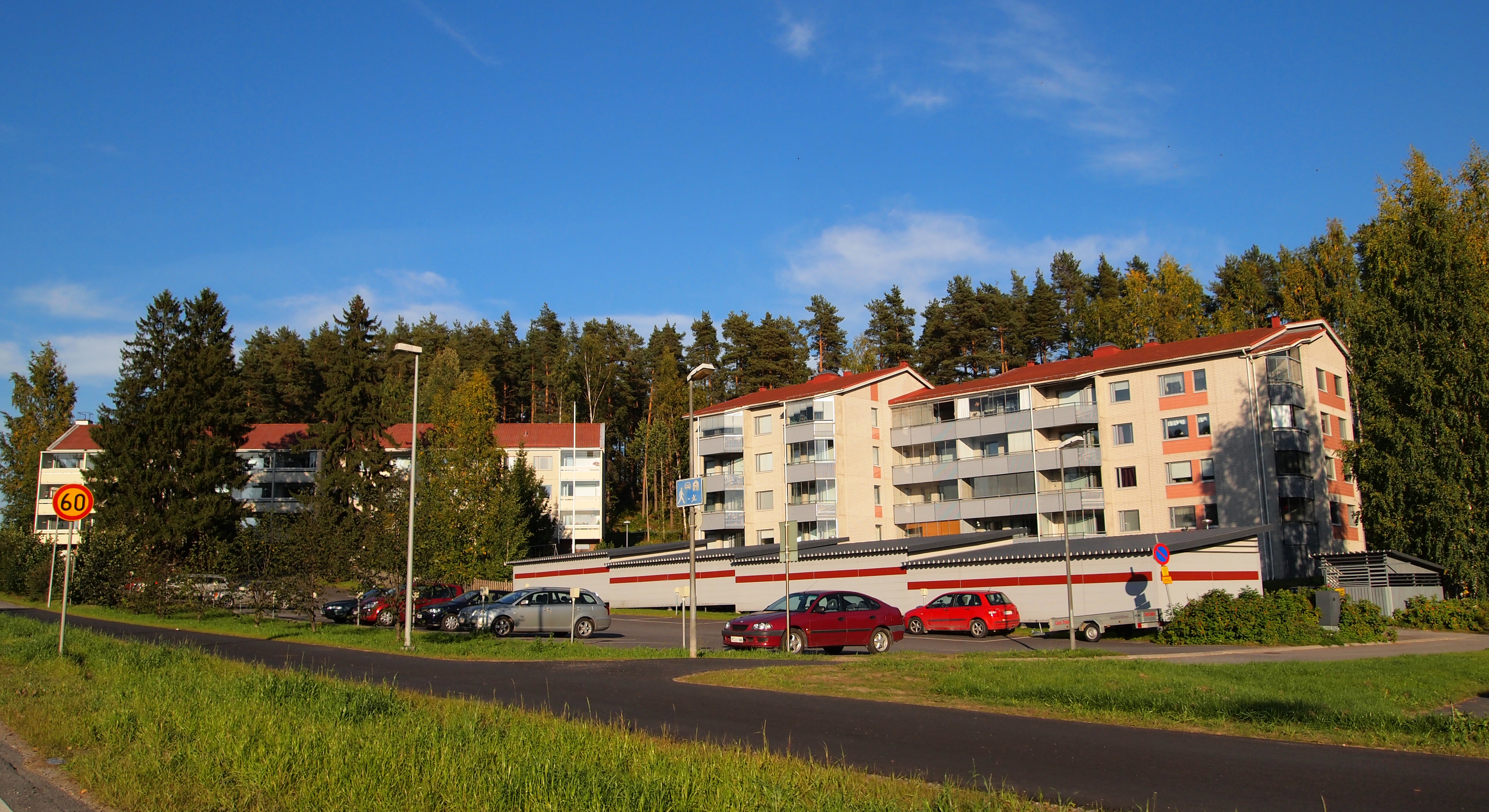 Buildings in Lohikoski district, Jyväskylä. This photograph was taken with a Olympus E-PL1.